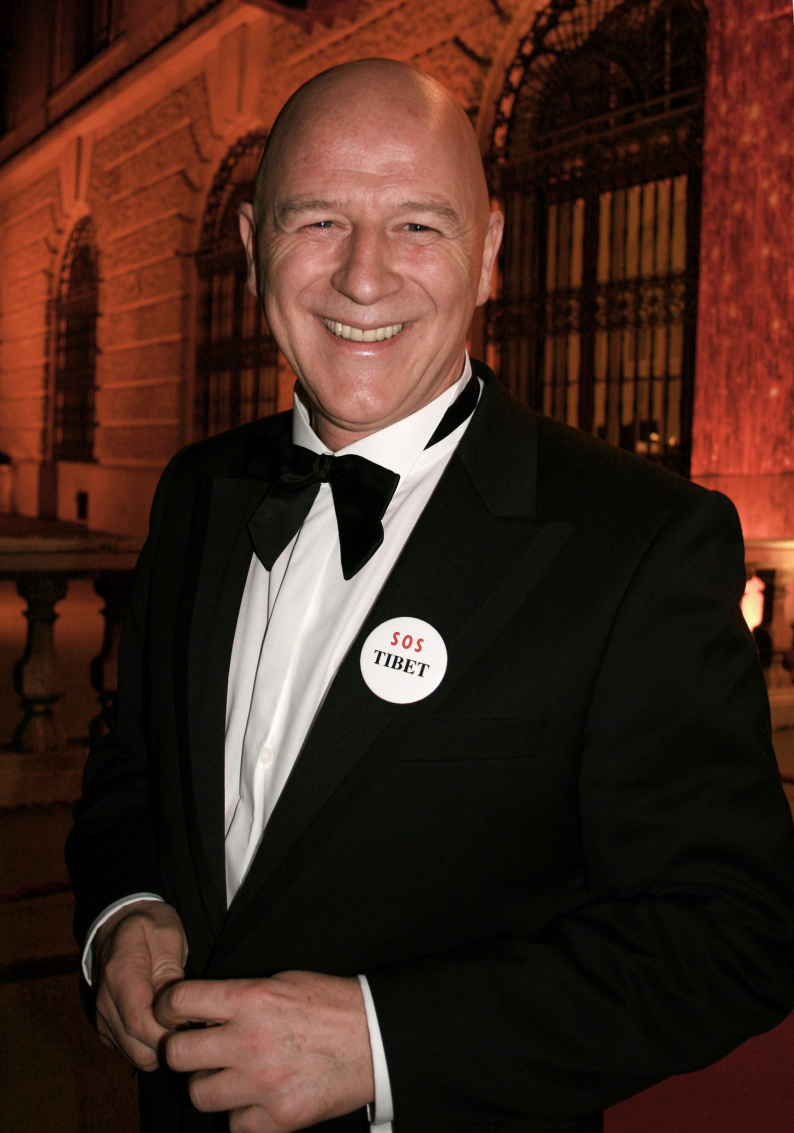 Actor Alexander Goebel at the Romy TV awards (Hofburg Imperial Palace in Vienna)